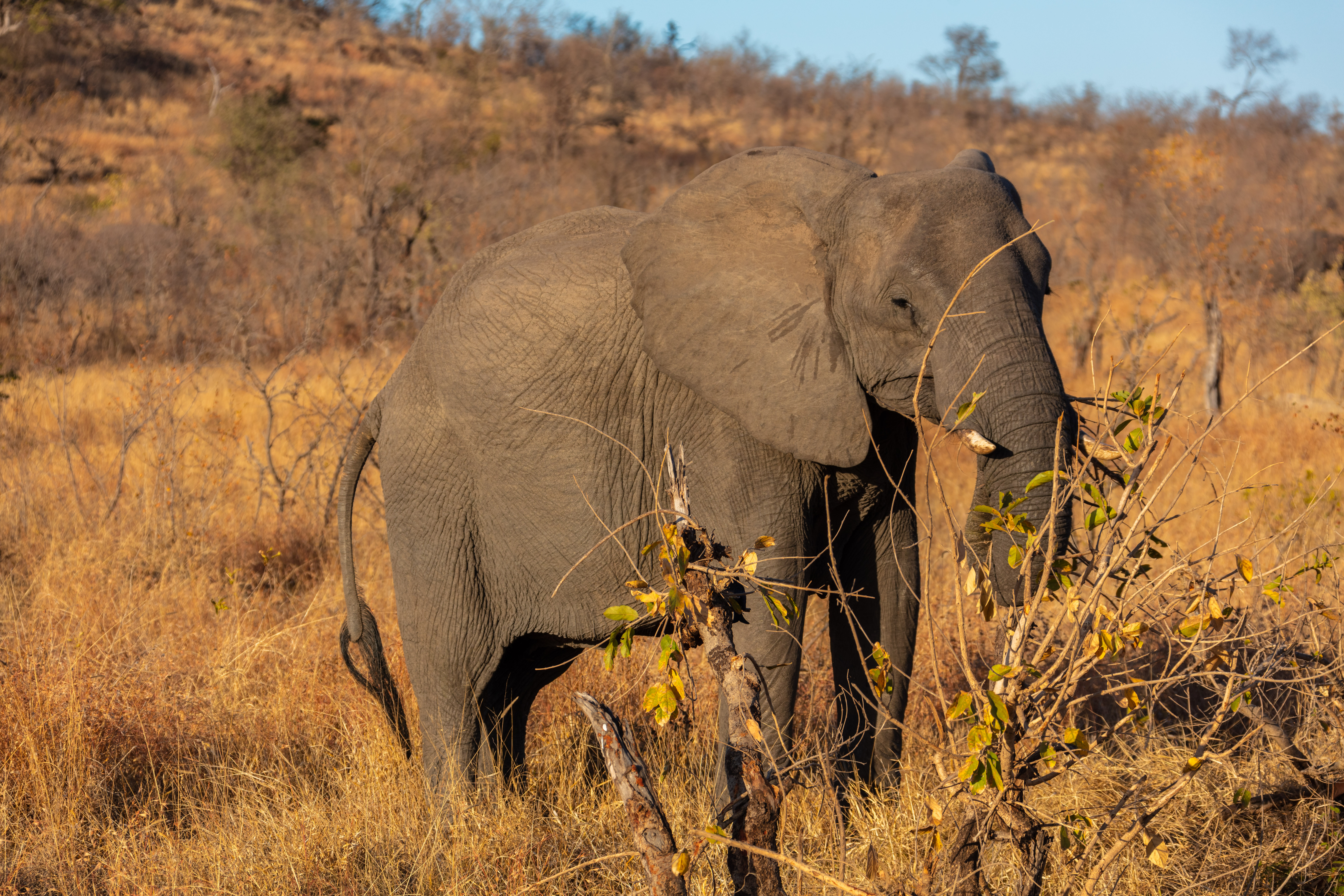 African bush elephant (Loxodonta africana), Kruger National Park, South Africa